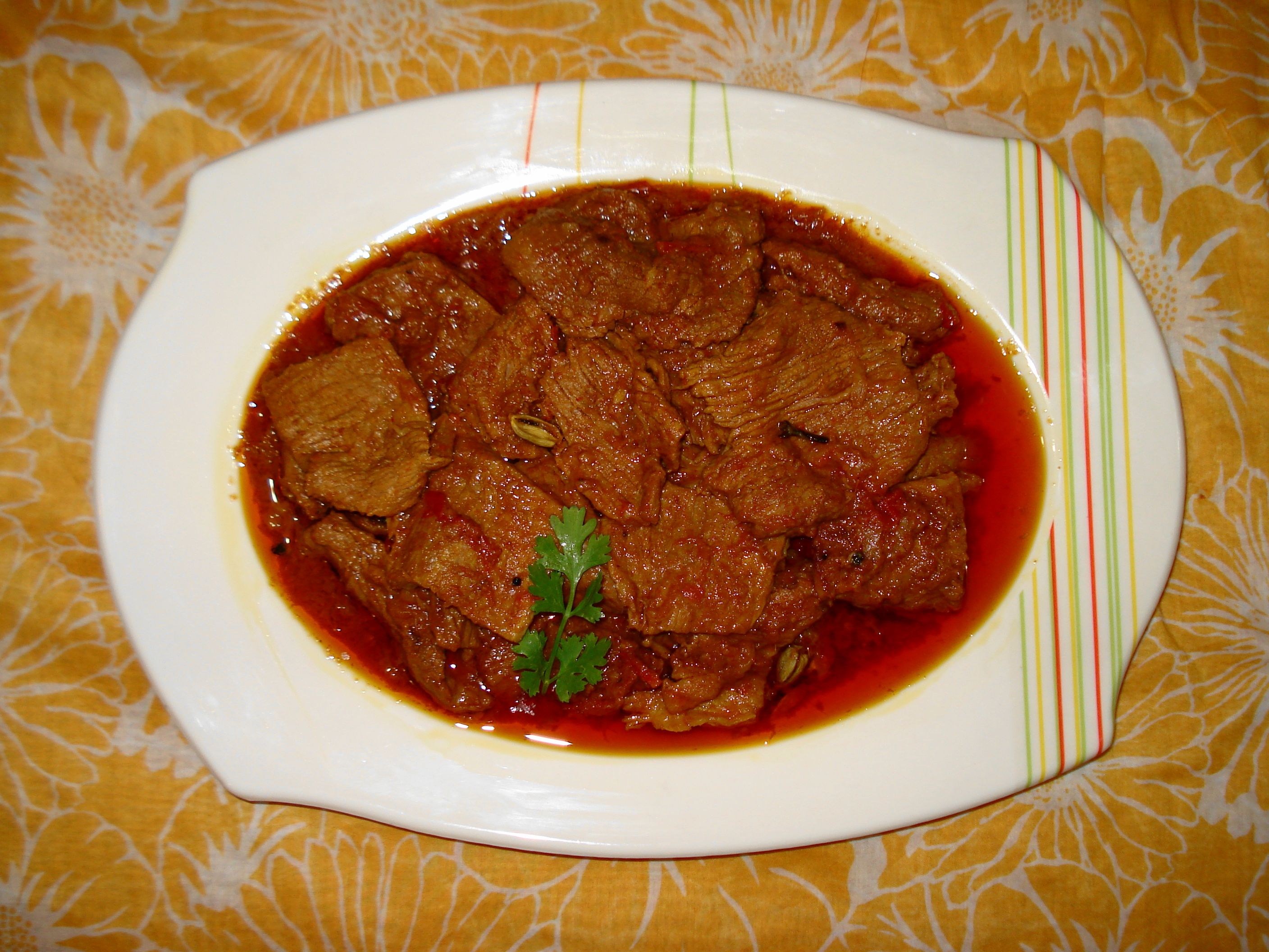 Pasanda Curry or Pasanday Ka Salan